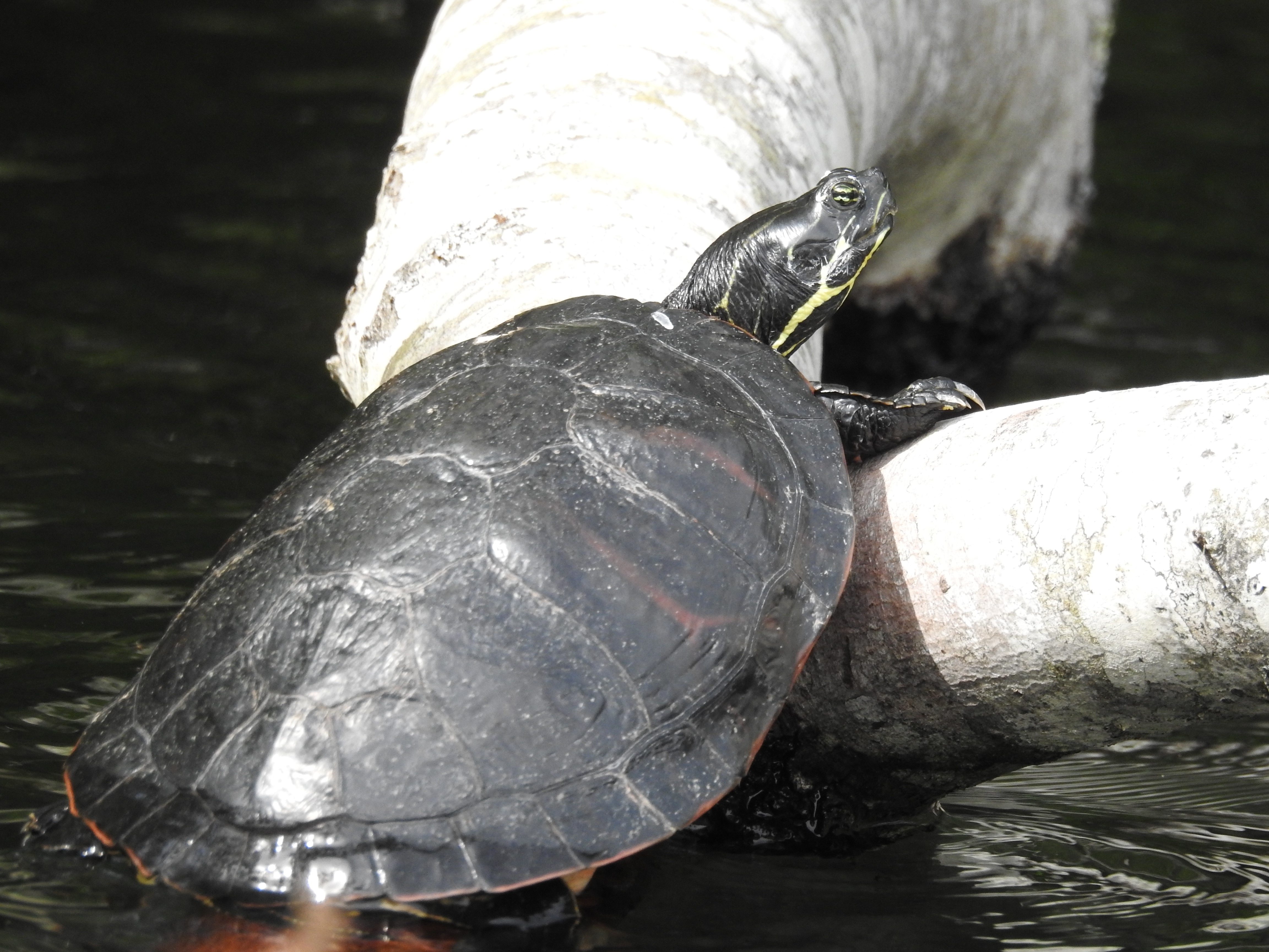 A northern red-bellied cooter in Long Pond, Plymouth, MA, July 2016.